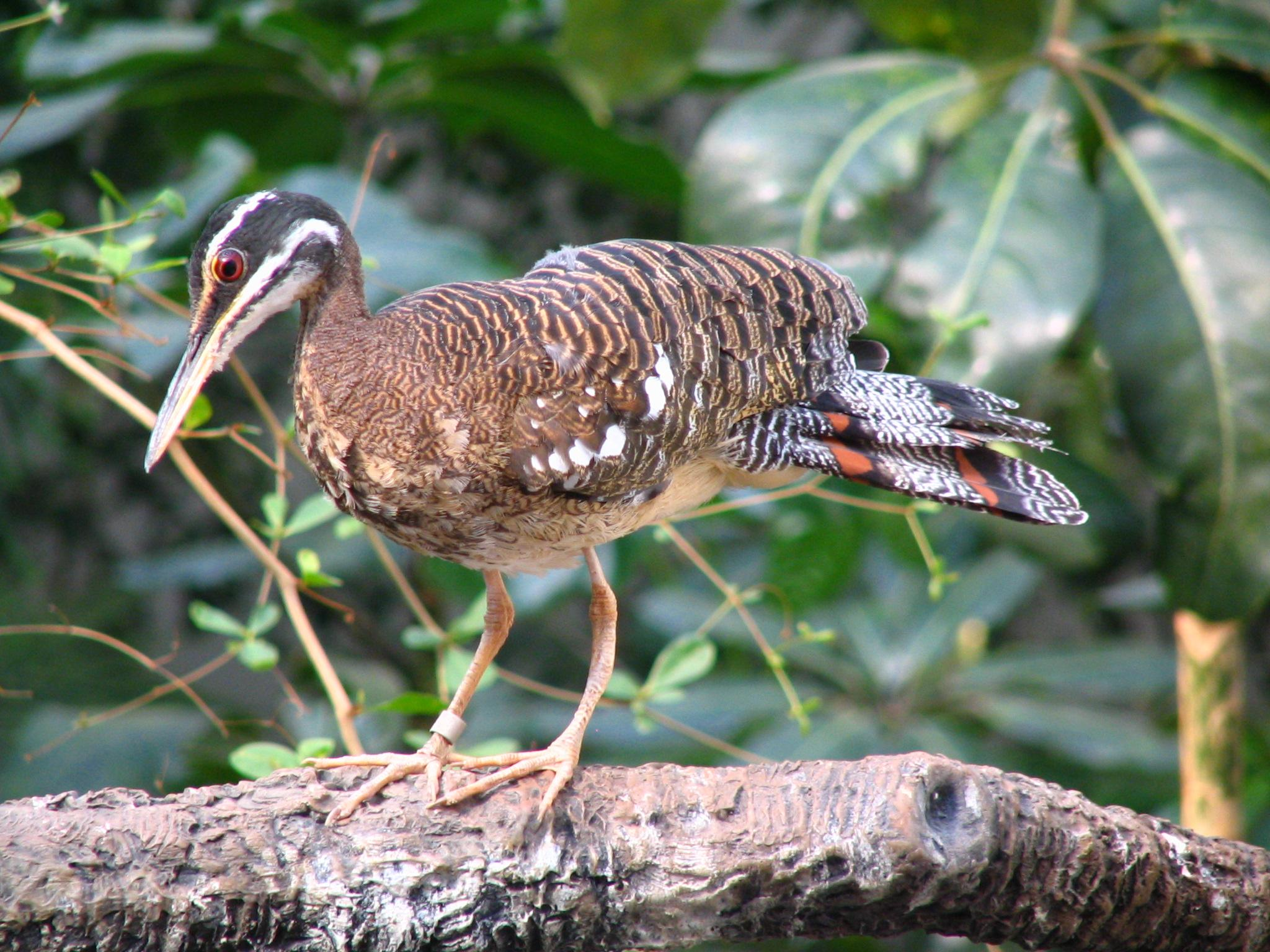 A Sunbittern at Smithsonian National Zoological Park, USA.